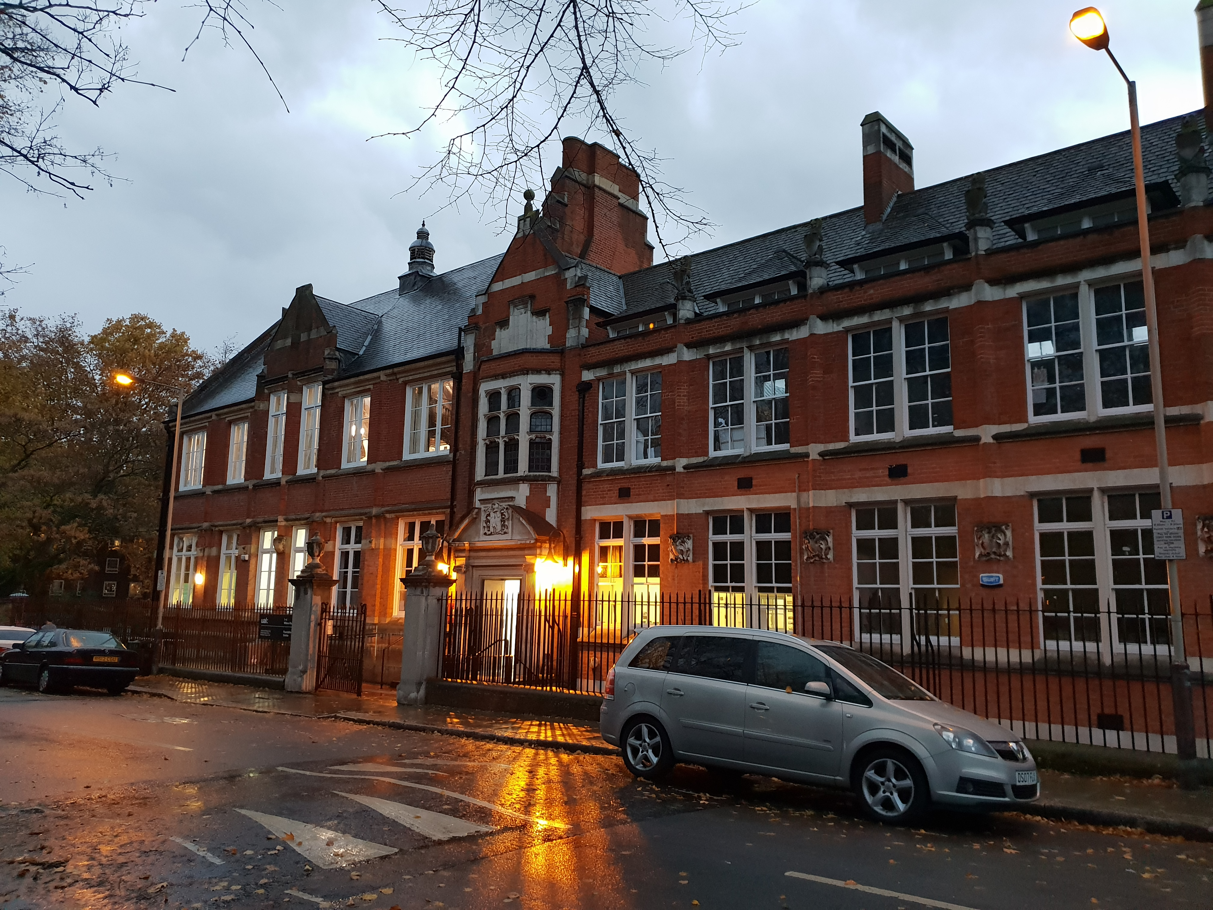 Camberwell College of Arts